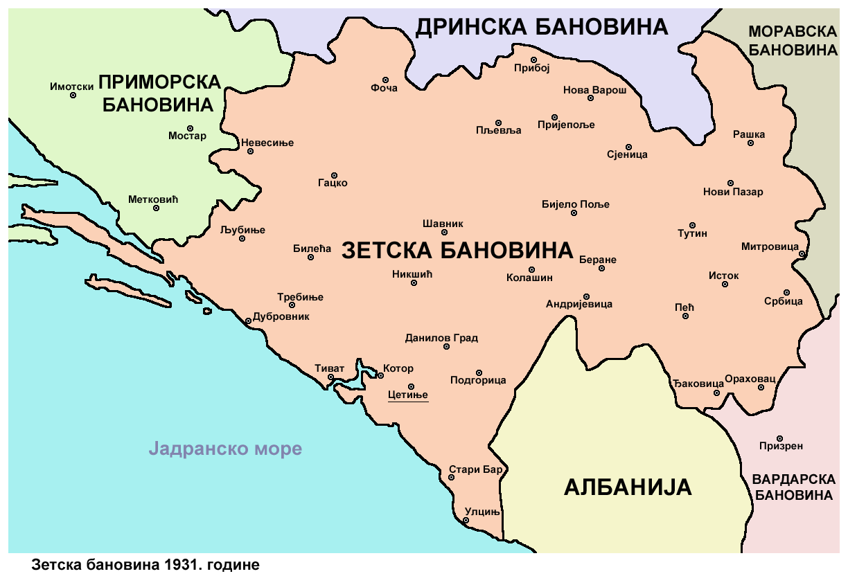 Zeta Banovina in 1931.